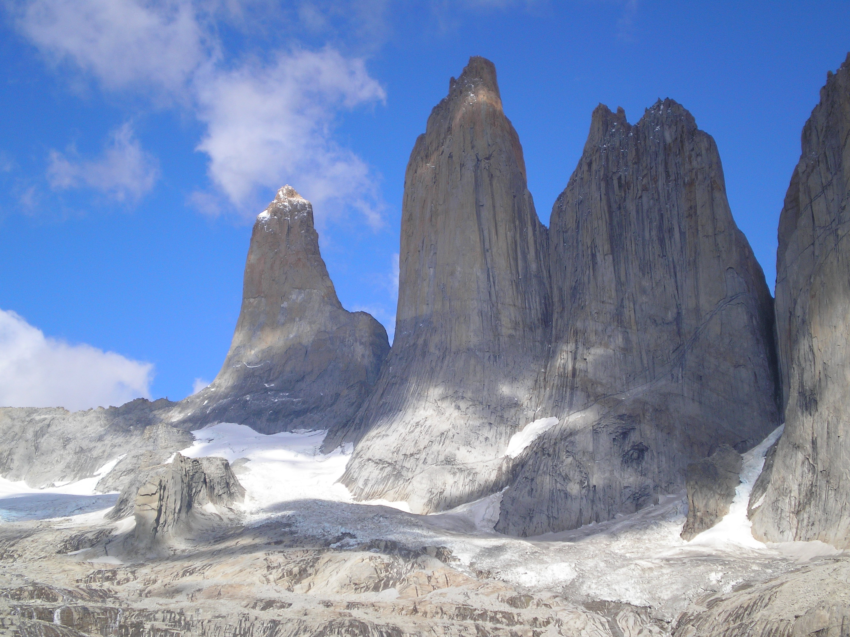 Torres del Paine, stone pillers found in the national park sharing the same name, Patagonia, Chile